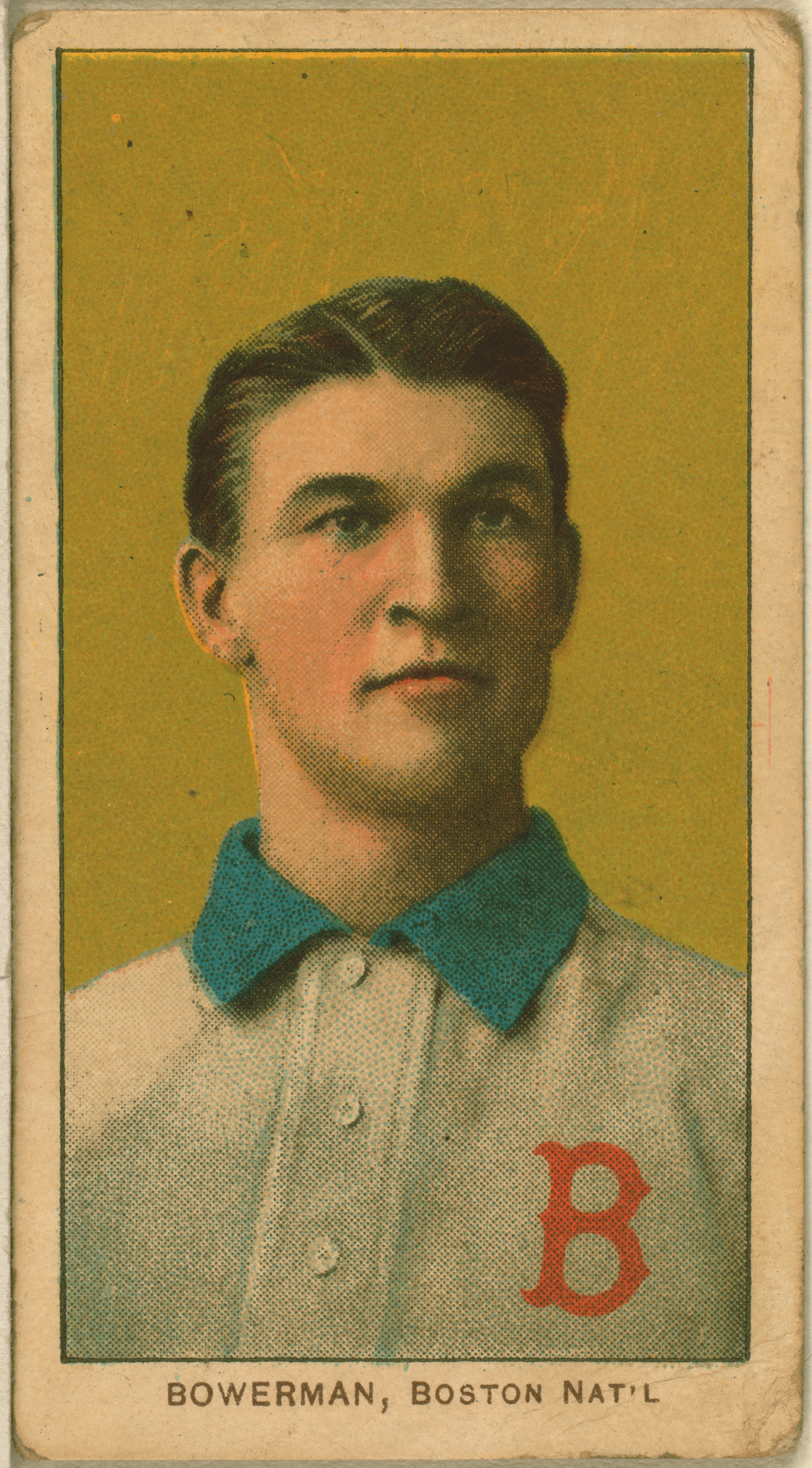 Baseball card of Frank Bowerman, Boston Doves. T206 White Borders set.